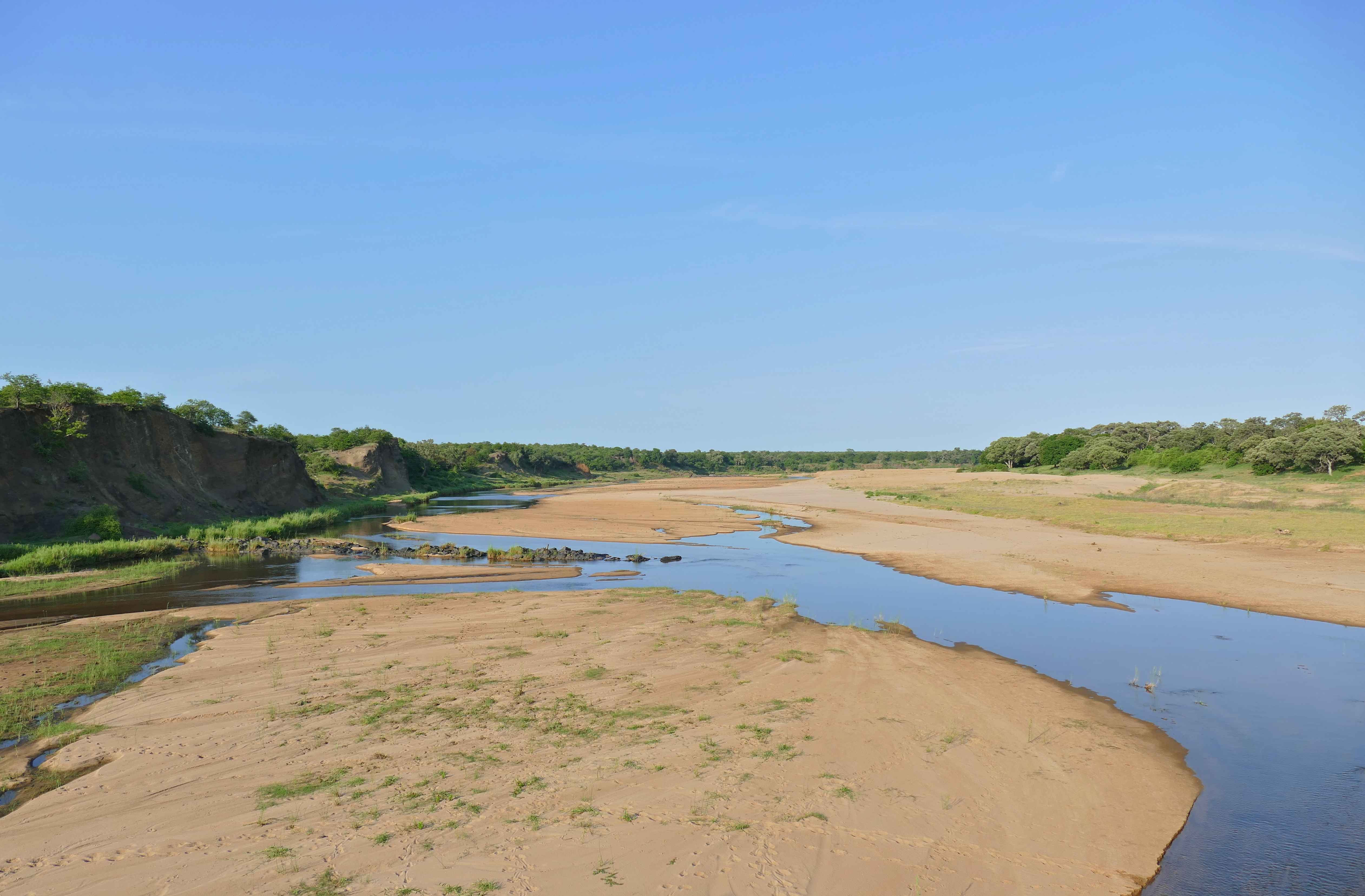 Letaba Bridge, H1-6 Road North of Letaba, Kruger NP, SOUTH AFRICA